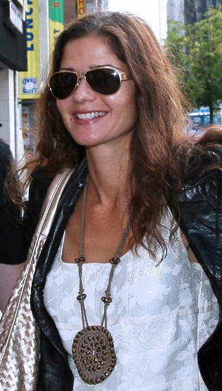 Jill Hennessy at the 2008 Toronto International Film Festival